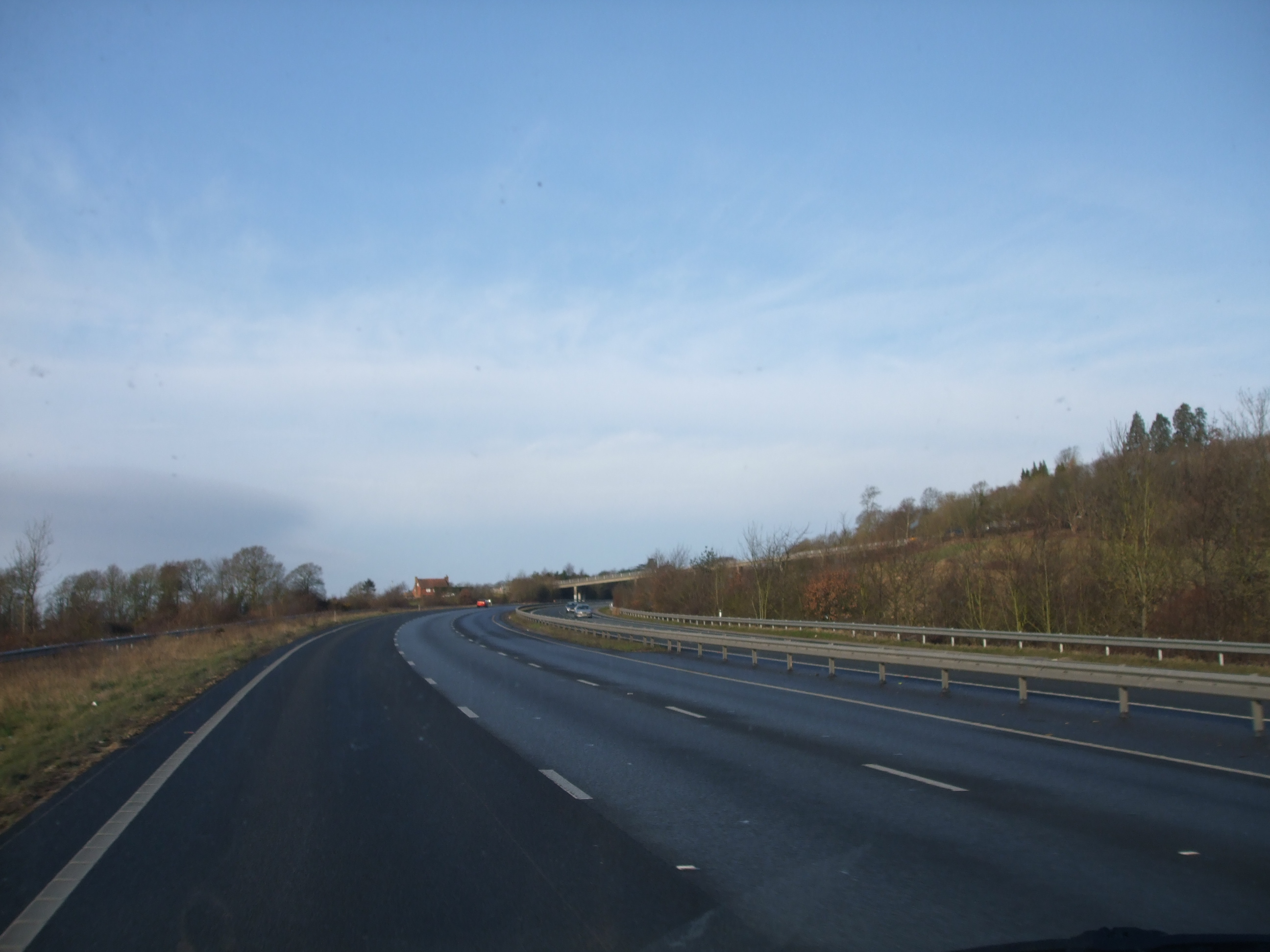 A21 near Sevenoaks Weald[7] . The A21 in the United Kingdom bypassing Sevenoaks and Hildenborough.